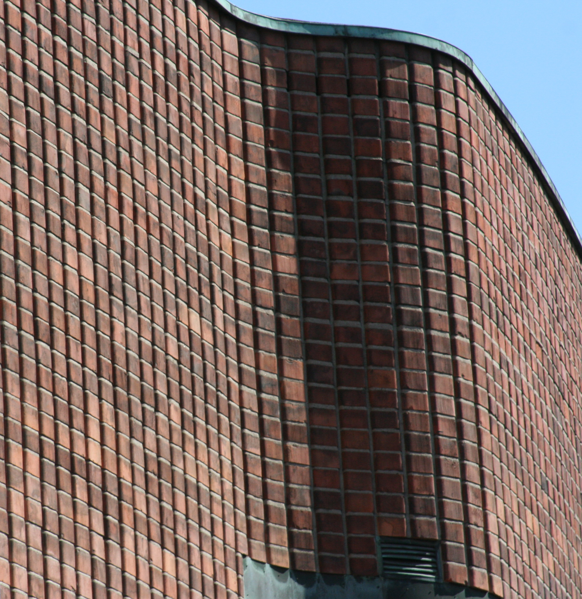 House of Culture, Helsinki, Finland. Architect Alvar Aalto. Bric masonry, facade